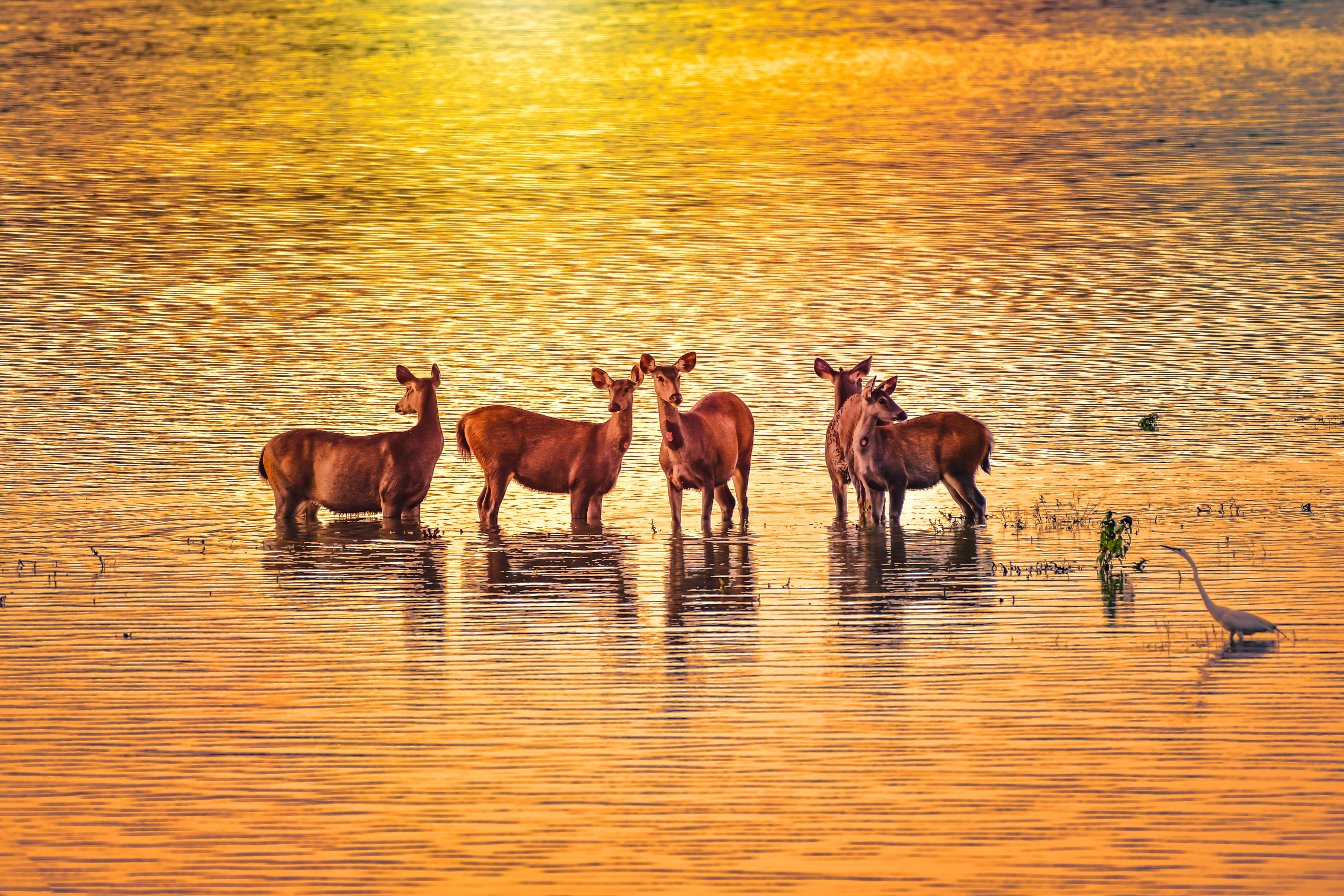 Sambar Deers searching for some comfortable place to stay while heavy rainfall submerged 80% of Kaziranga National Park. The sambar (Rusa unicolor) is a large deer native to the Indian subcontinent, South China, and Southeast Asia that is listed as a vulnerable species on the IUCN Red List since 2008.